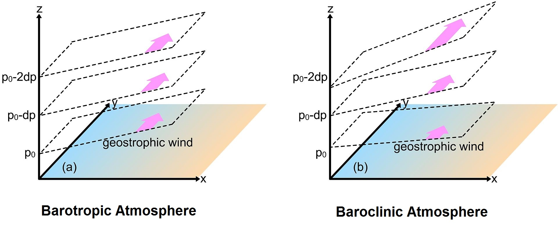 The blue portion of the surface denotes a cold region while the orange portion denotes a warm region. Temperature difference is restricted to the boundary in (a) and extends through the region in (b). The dotted lines enclose isobaric surfaces which remain at constant slope with increasing height in (a) and increase in slope with height in (b). This causes thermal wind to occur only in a baroclinic atmosphere.